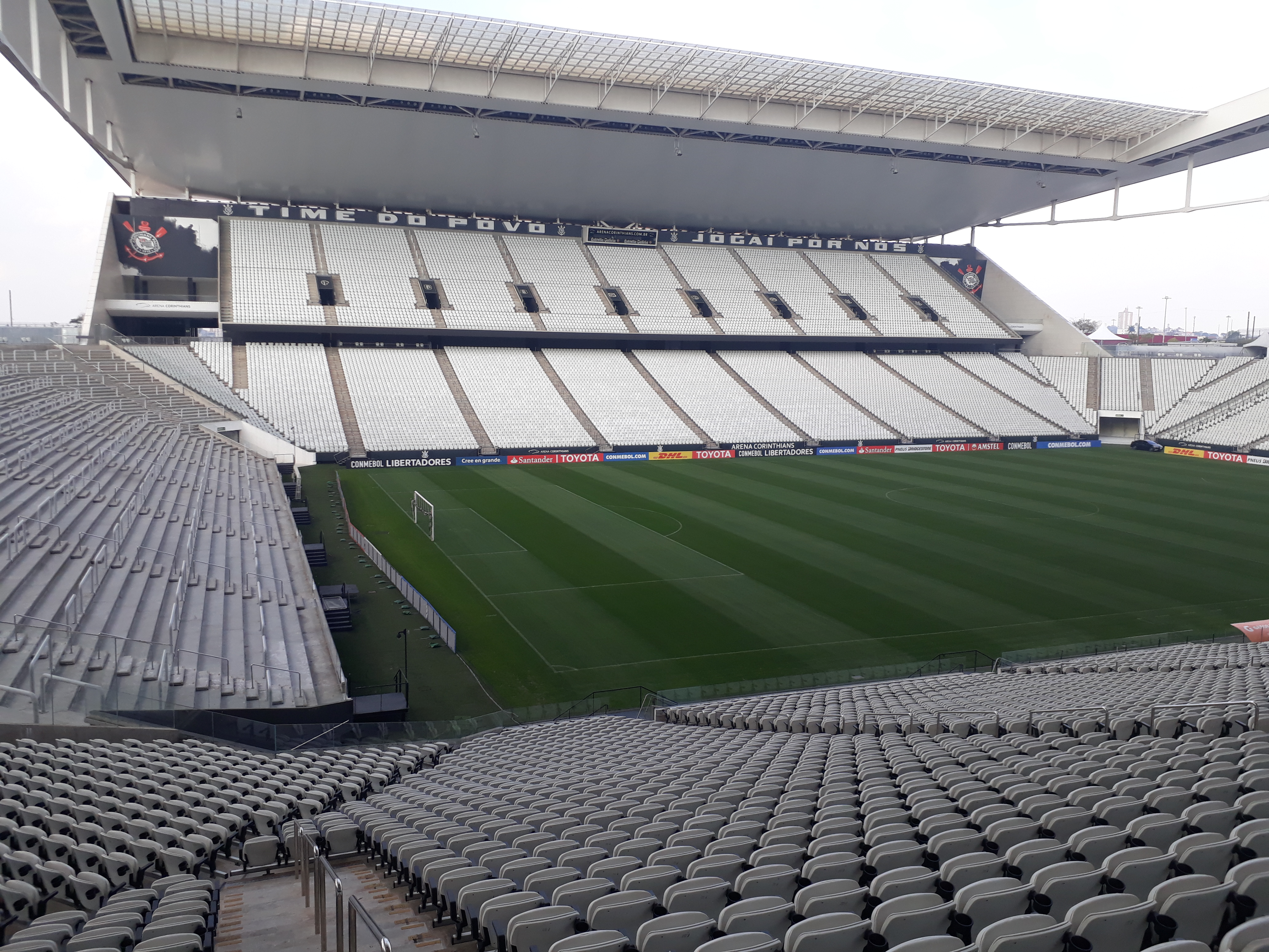 Cover with flexible membrane liner covers the structure